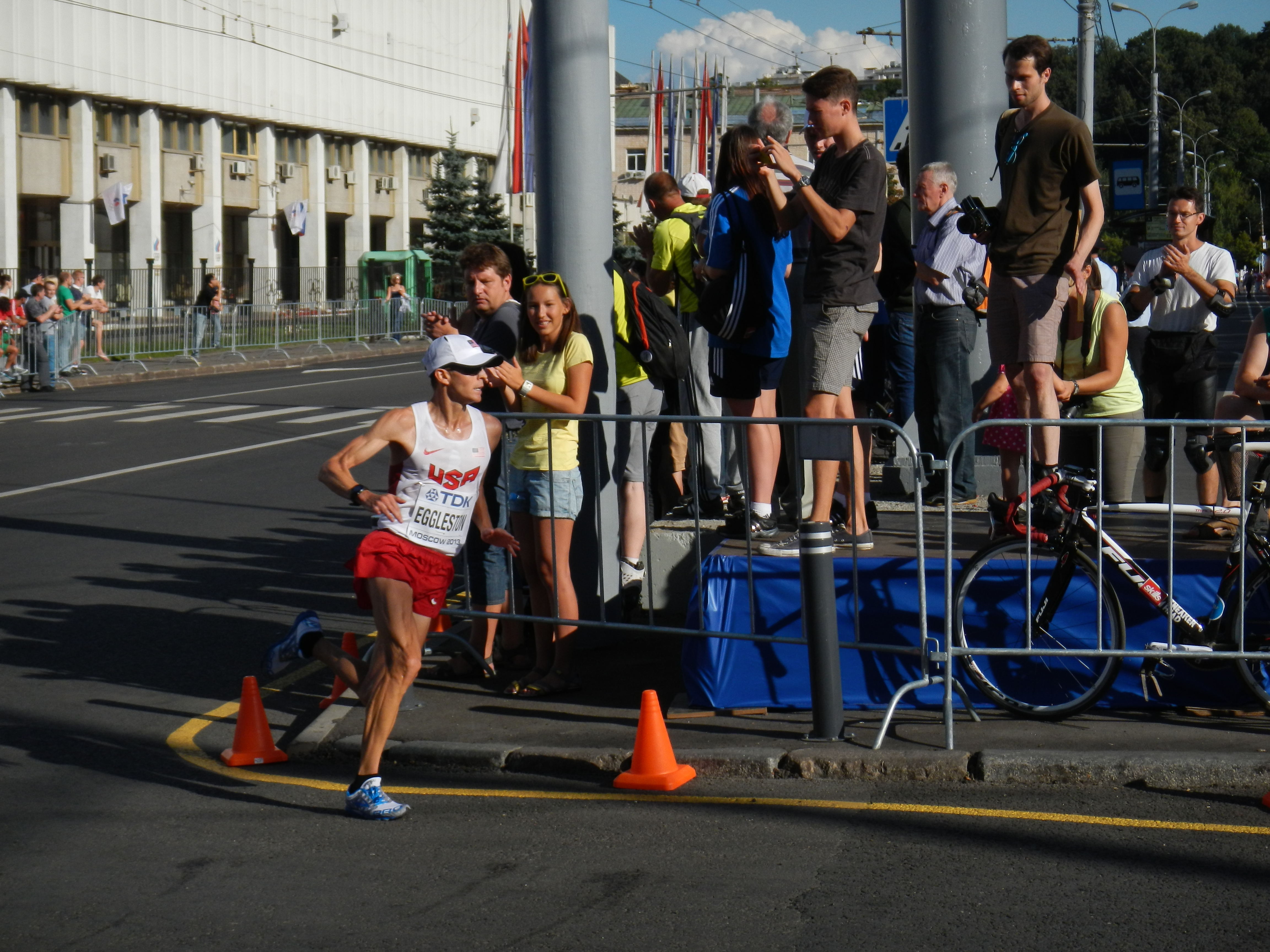 13 (1124) Jeff Eggleston (USA) 2:14:23